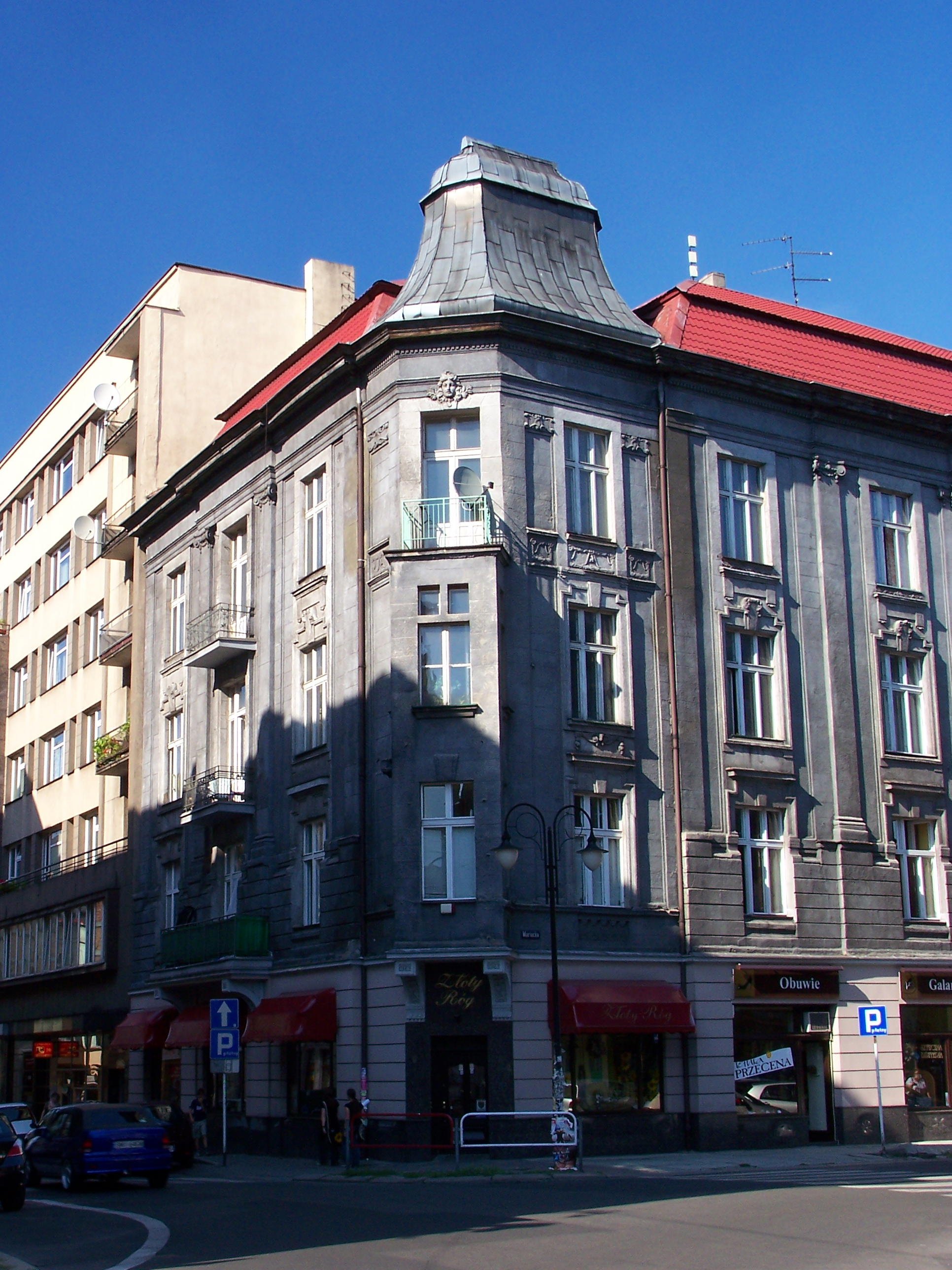 Building on the corner of Mariacka and Mielęckiego street in Katowice (Poland).